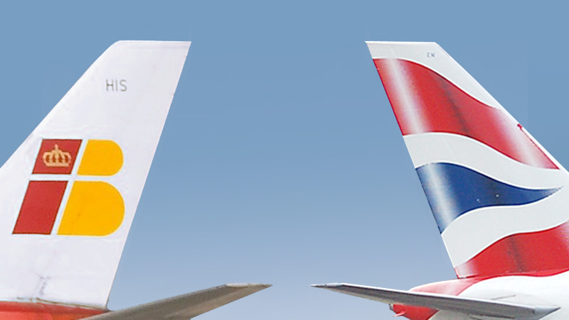 BAW - British Airways Boeing 757-236 ==